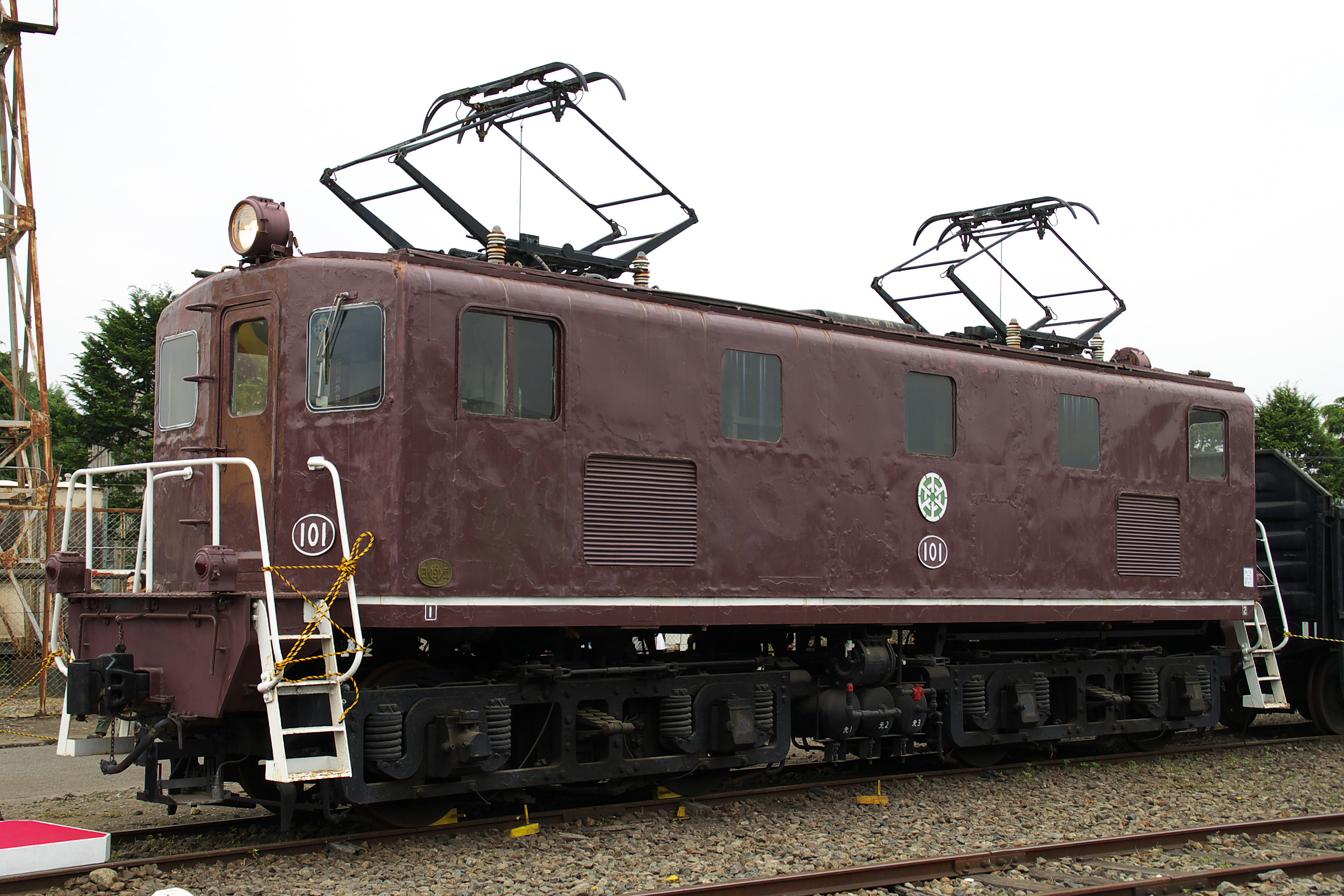 Chichibu Railway Class DeKi 100 electric locomotive DeKi 101 preserved at Hirosegawa Depot in brown livery